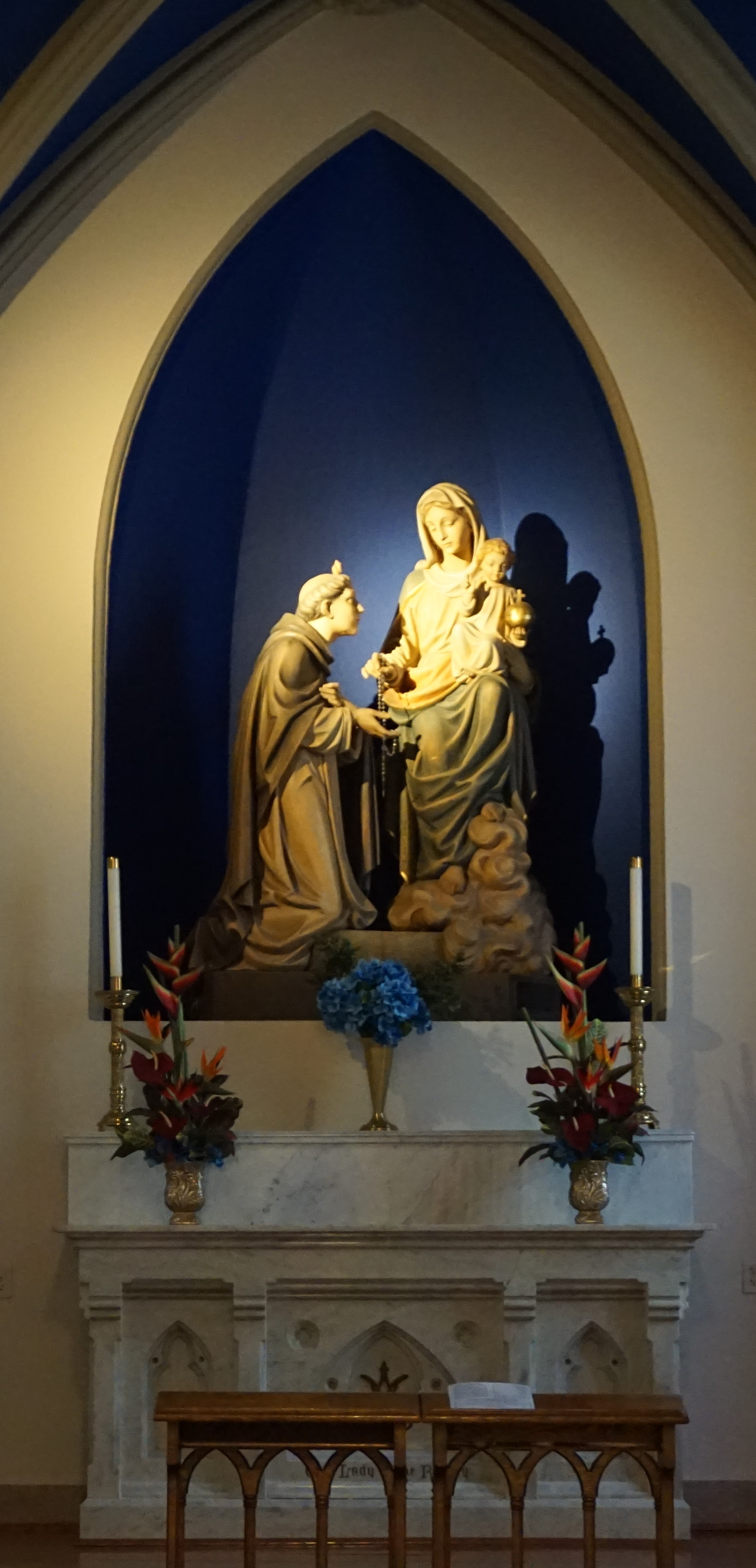 Rosary Shrine of St. Dominic Church in Southwest Washington, DC